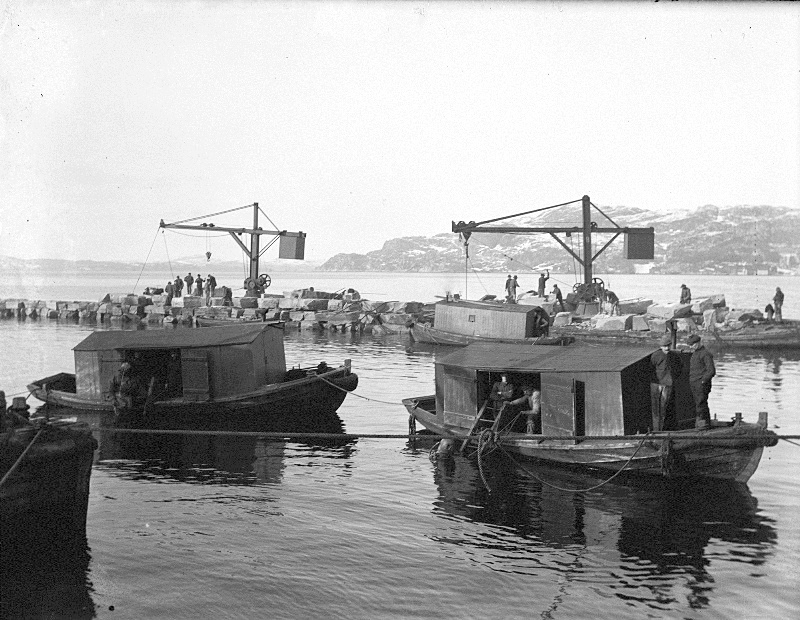 Bygging av fundamentene til Skoltegrunnskaien. Dykkere sikrer bunnfeste. Udatert foto fra rundt 1915. Ukjent fotograf. Fra arkivet etter Havneingeniøren i Bergen, oppbevart ved Bergen Byarkiv.